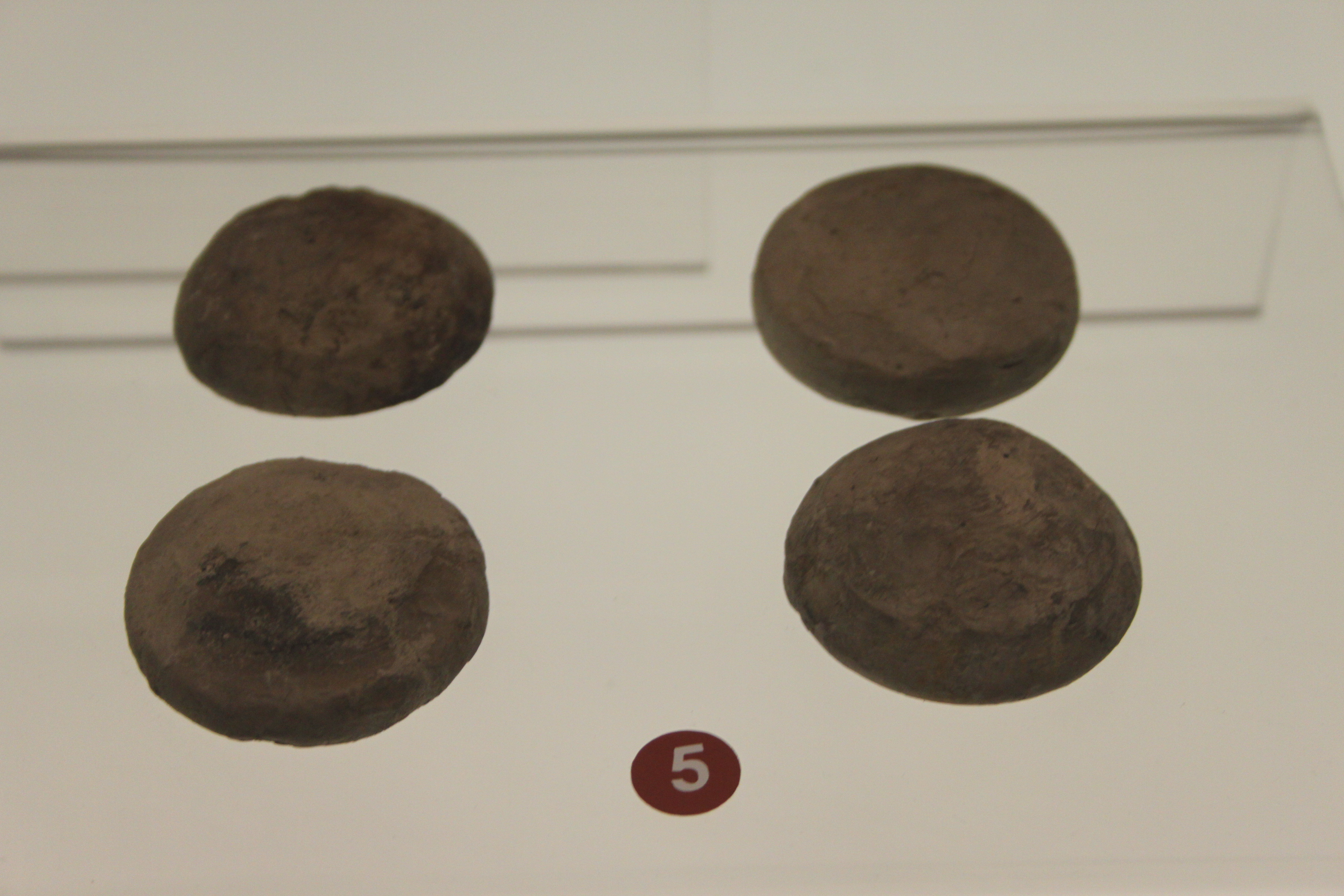 Mawangdui Han Tombs, Changsha, Hunan. Complete indexed photo collection at .